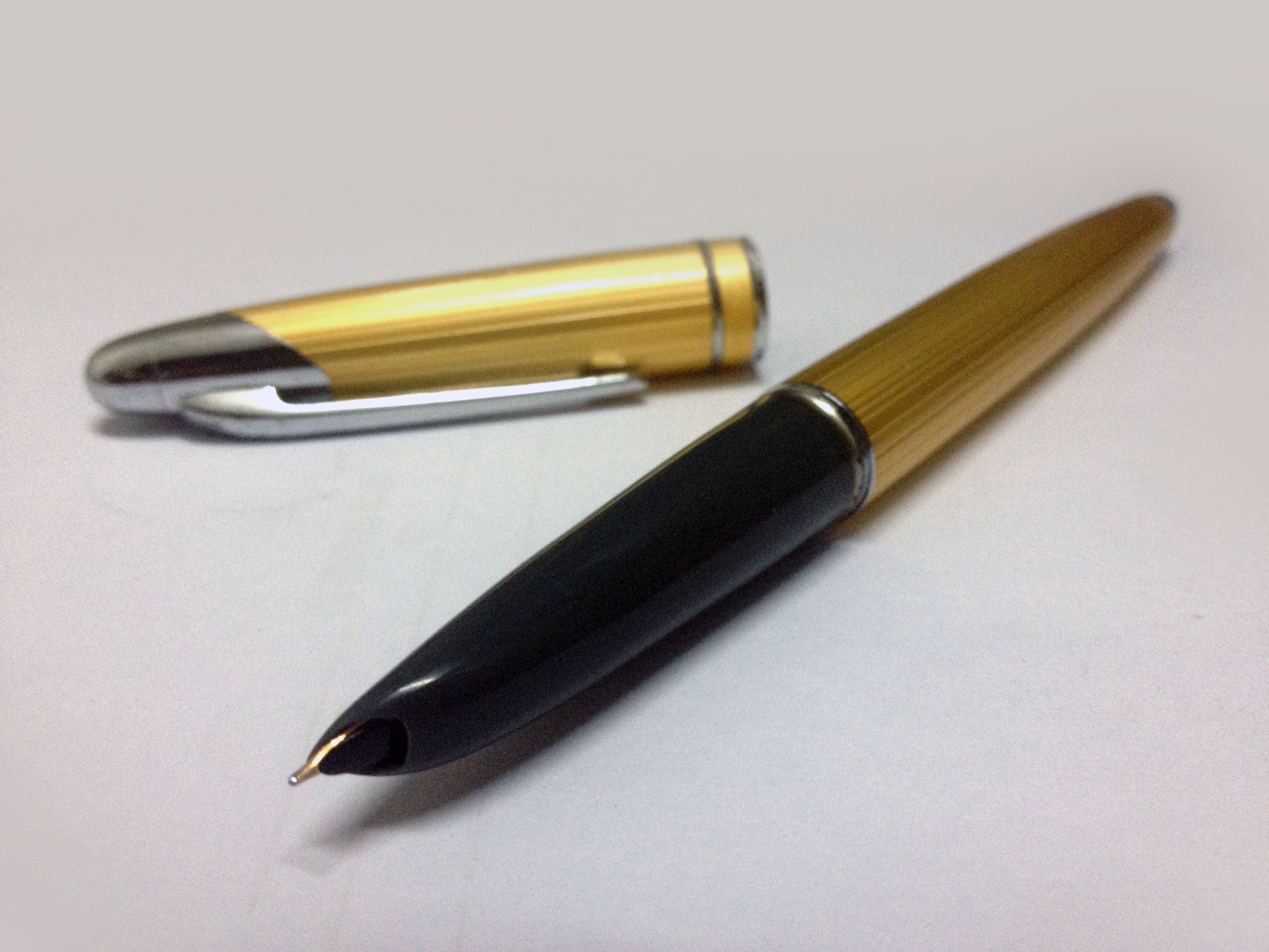 Hero 100 pen (Parker 51 copycat)